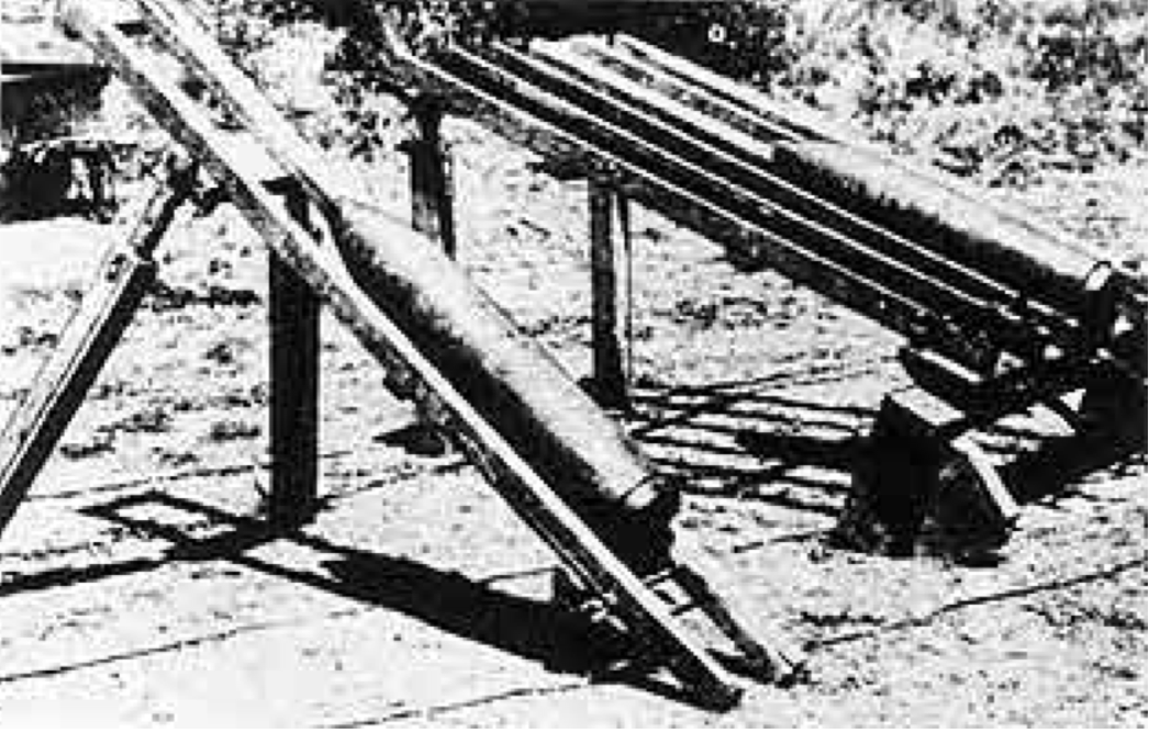 A Type 4 20 cm rocket launcher of the Imperial Japanese Army